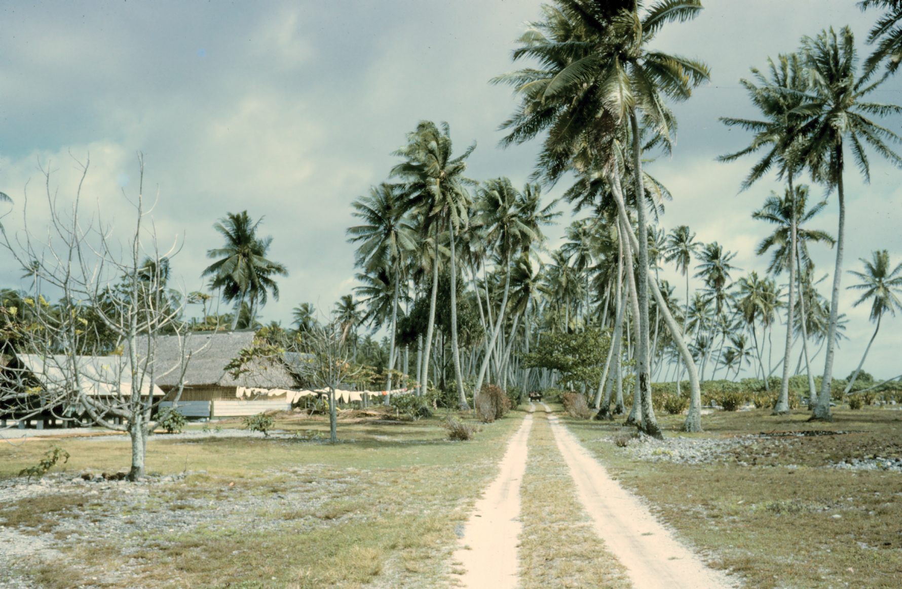 A road on Washington Island (Teraina), Line Islands, Pacific Ocean.